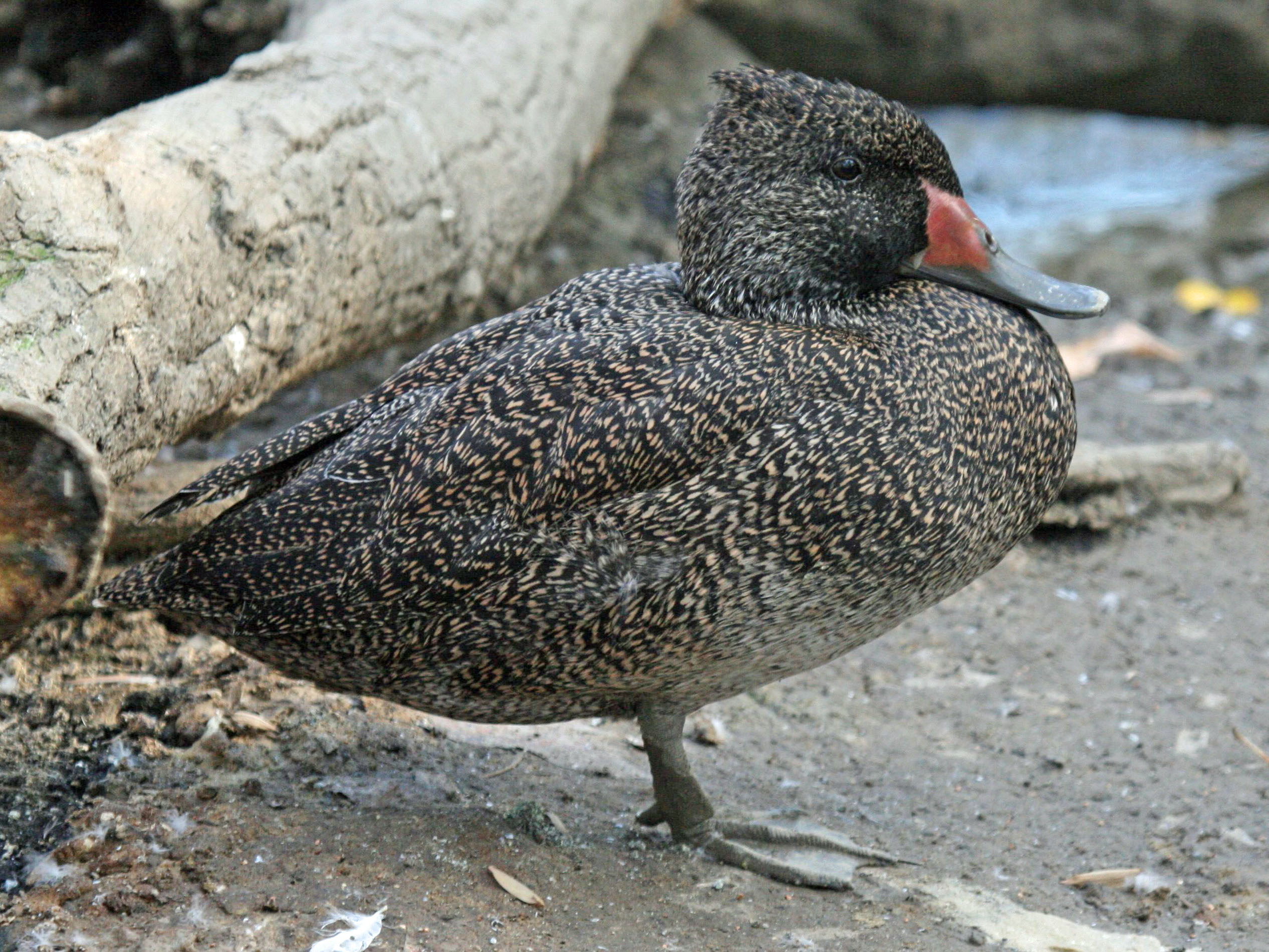 Male Freckled Duck (Stictonetta naevosa) at Sylvan Heights Waterfowl Park in Scotland Neck, North Carolina.